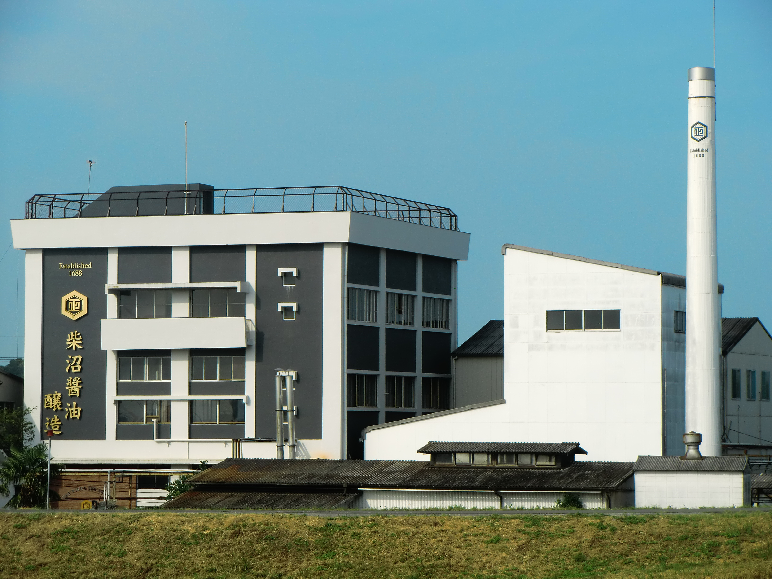 Headquarters of Shibanuma-syouyu Co., Ltd. in Tsuchiura city, Ibaraki prefecture, Japan.